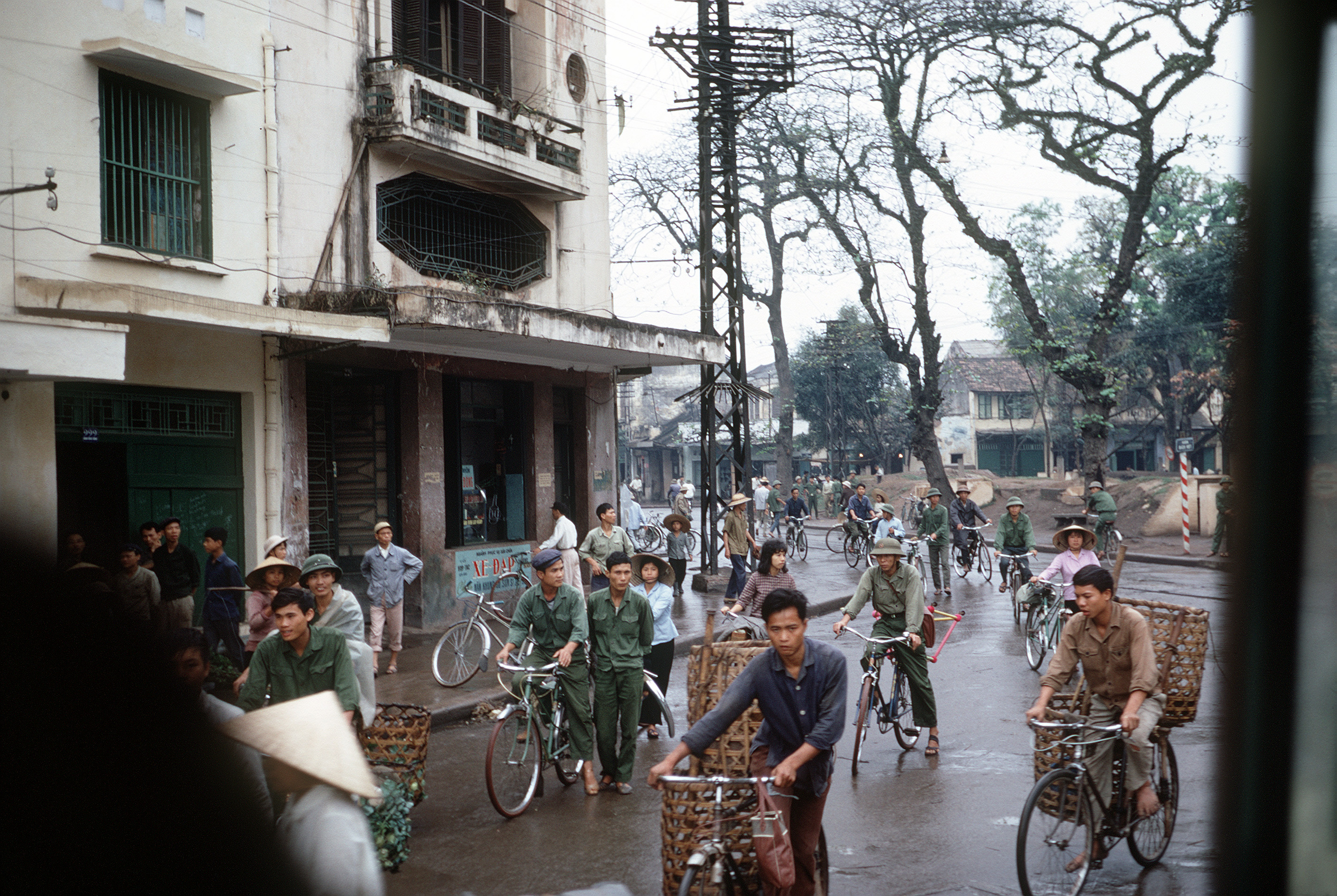 A view of a downtown street in north Vietnam.